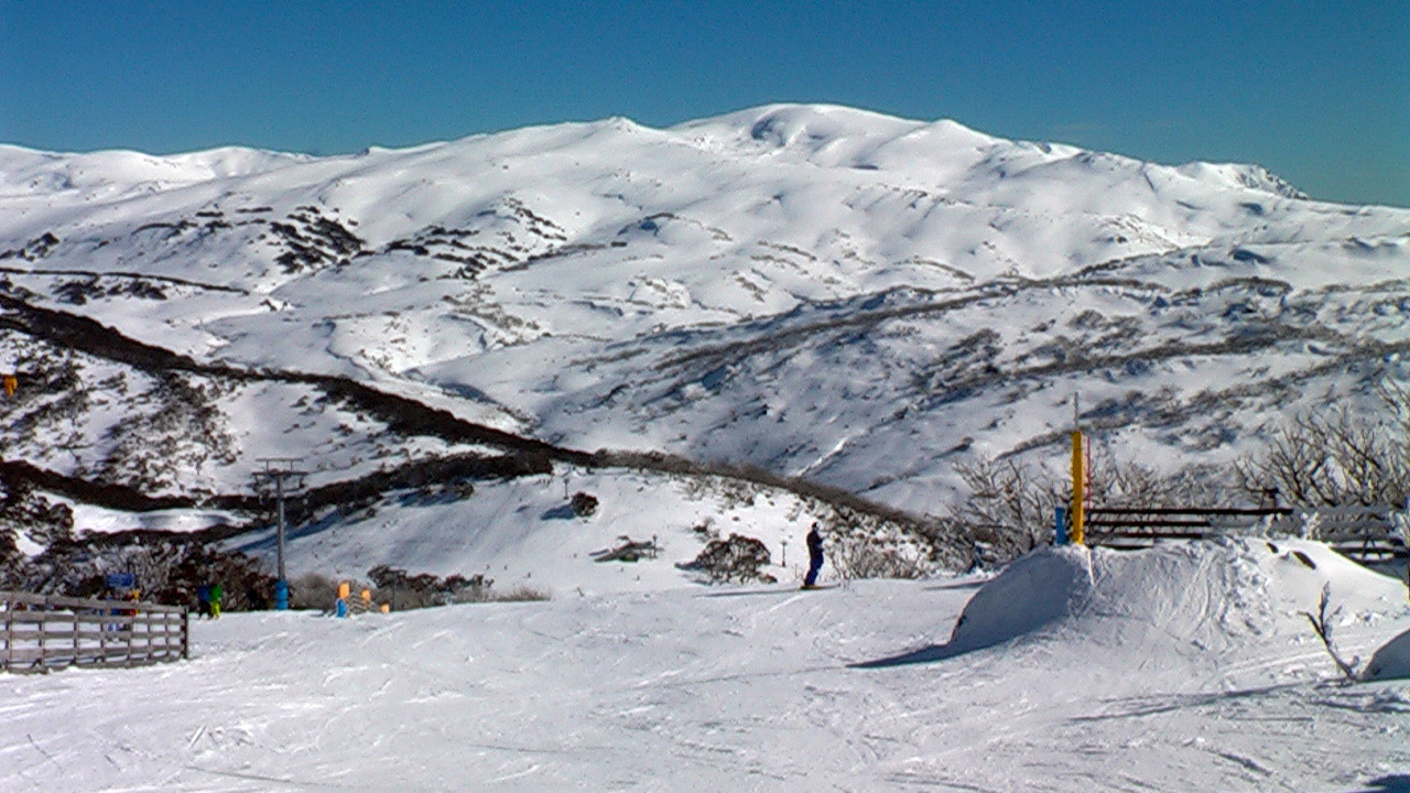 From the summit of Guthega, July 2011. Perisher ski resort, New South Wales, Australia.